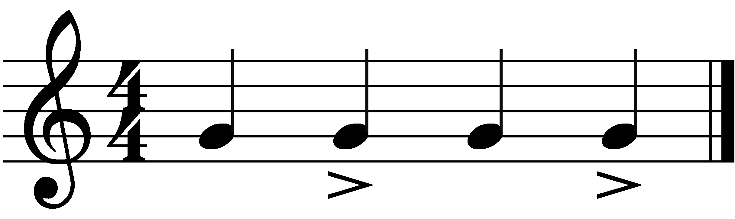 Backbeat